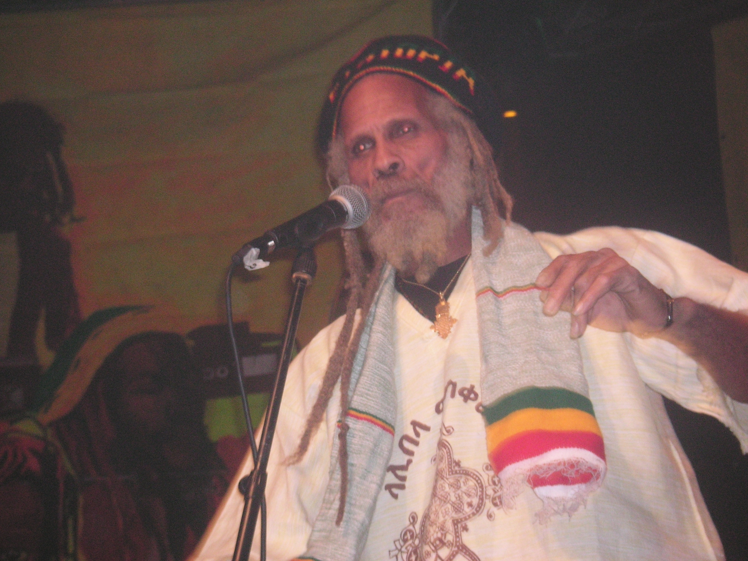 The Congos (reggae band) in concert in Chartres (France) on October 21, 2006